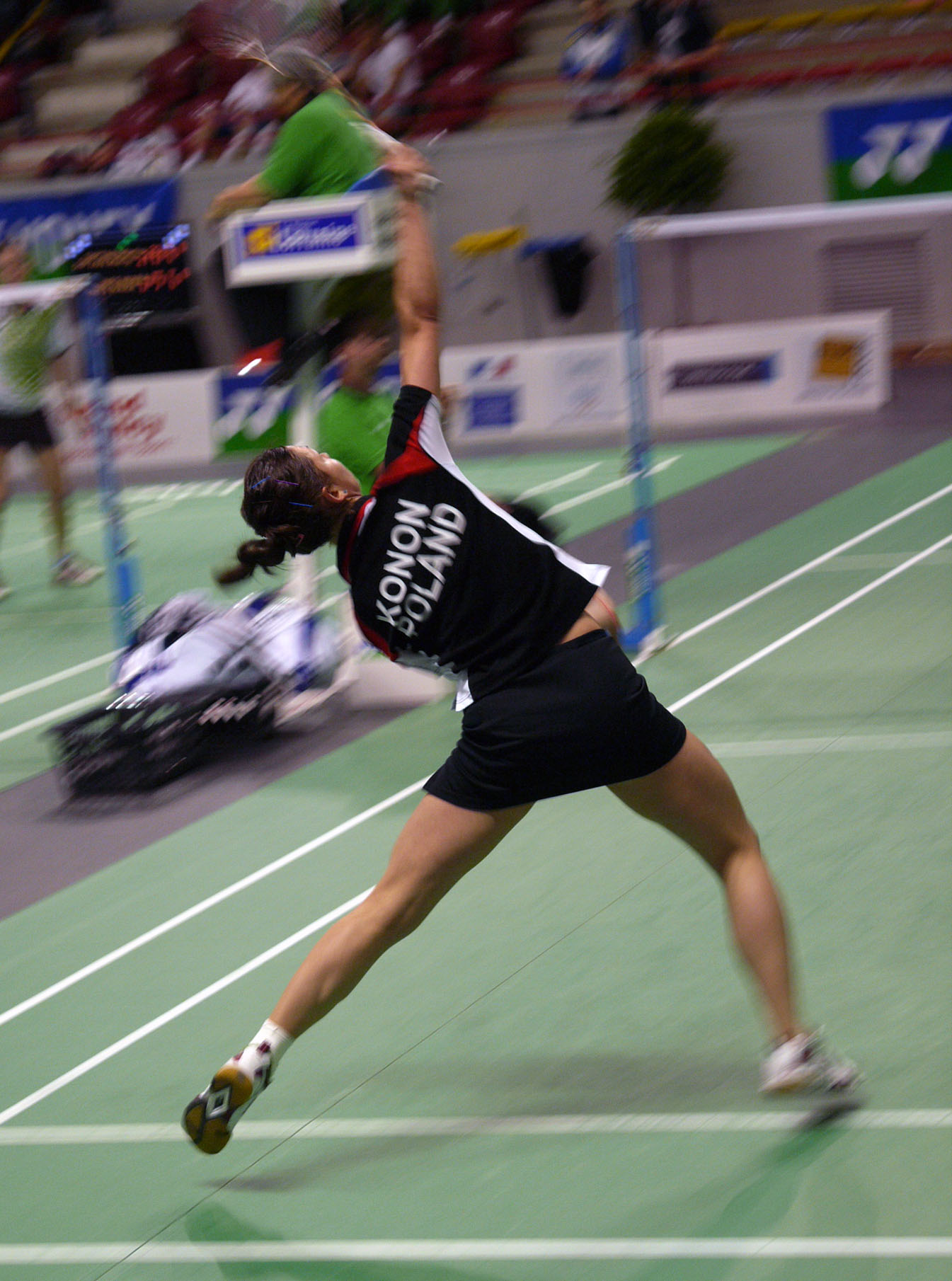 Olga Konon